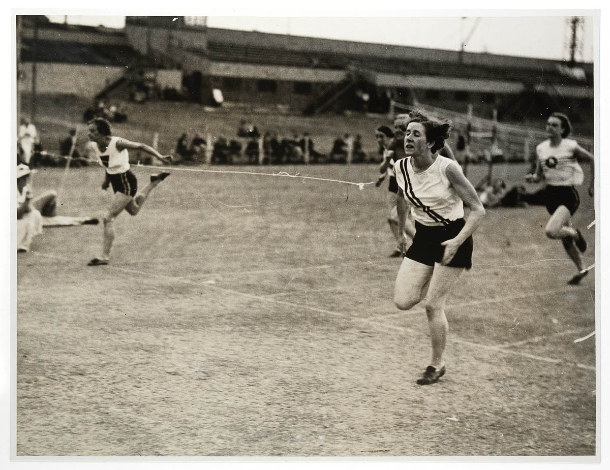 Eileen Wearne winning the NSW State 100 yards Championship Sports Ground 4 Jan. 1936